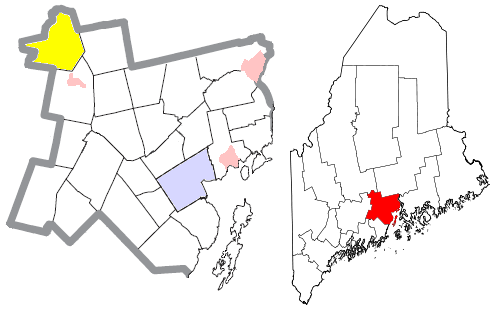 Map of the divisions of Waldo County, Maine, United States, with the town of Burnham highlighted in yellow. The city of Belfast is light blue; other towns are white; and pink areas are census-designated places within towns.